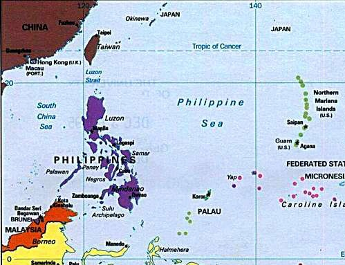 Philippine sea